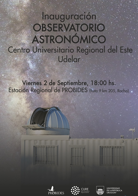 Afiche de inauguración del Observatorio Astronómico del CURE